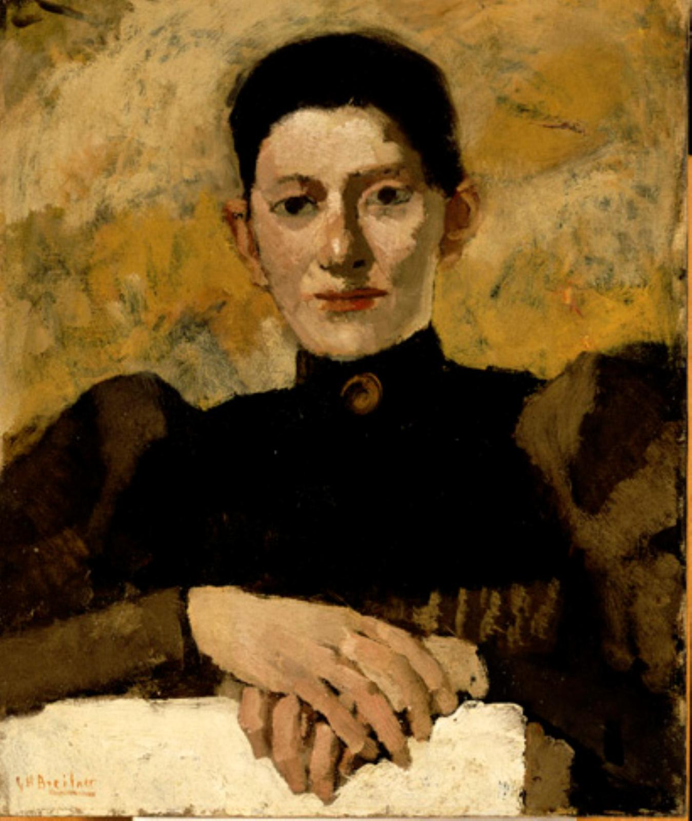 Painting by George Hendrik Breitner (1857-1923) of the sculptress Elisabeth Sara Clasina de Swart (1861-1951). She became famous as the “Muse of the Tachtigers” – the Eighties Movement of artists and writers. The poet Willem Kloos fell passionately in love with her, as did the young painter Eduard Karsen. Sara de Swart’s work consists mainly of small bronze sculptures that betray the influence of the French sculptor Auguste Rodin. From 1908 onwards De Swart made frequent journeys to Indonesia, together with the painter Emilie van Kerckhoff. In 1918 they settled on the Italian island of Capri.